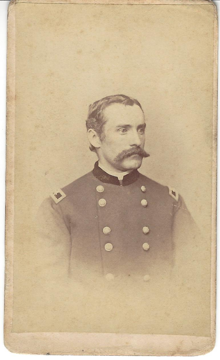 Autographed CDV of Brigadier General Joseph Hayes. MI as Major in the 18th Mass Vols, rising to Colonel. Promoted Brigadier General in May of 1864, Wounded while commanding the Regiment and then a Brigade at Gettysburg, again wounded in the head in the Wilderness/ Brevet Major General of Vols in 1865. Rare Gettysburg commander.